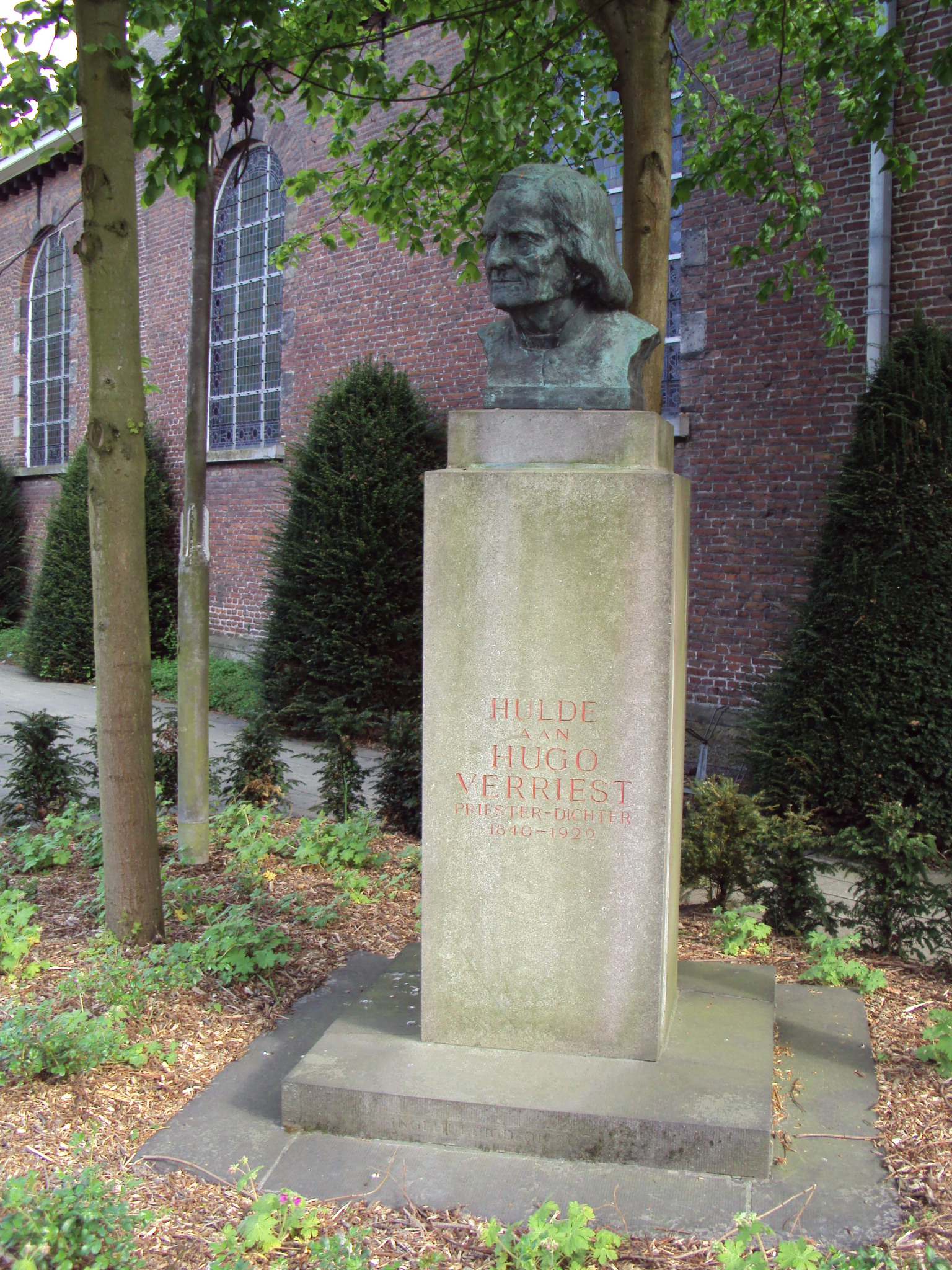 Bust of Hugo Verriest next to the St Columba church